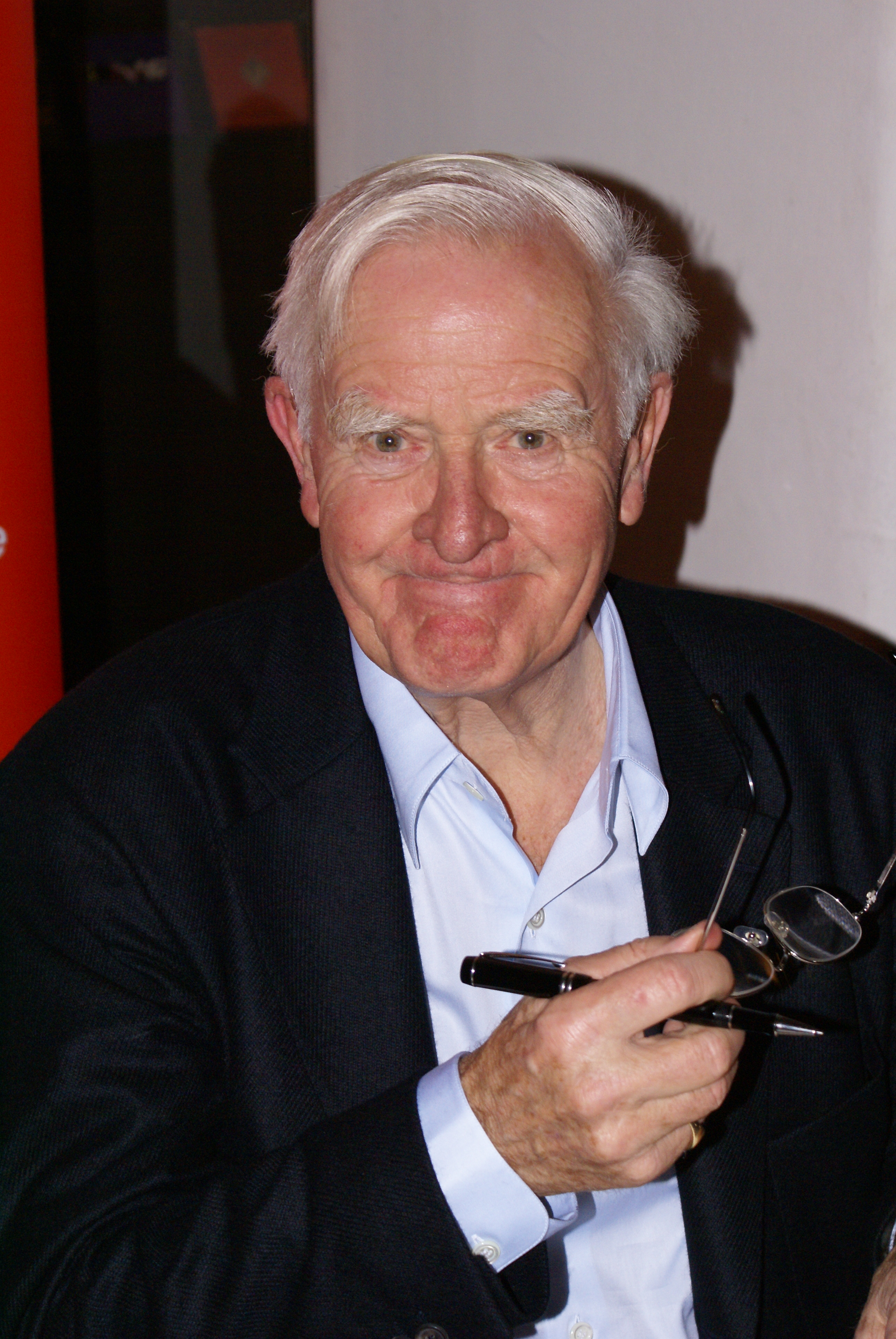 John le Carré at the "Zeit Forum Kultur" in Hamburg on November 10th 2008.